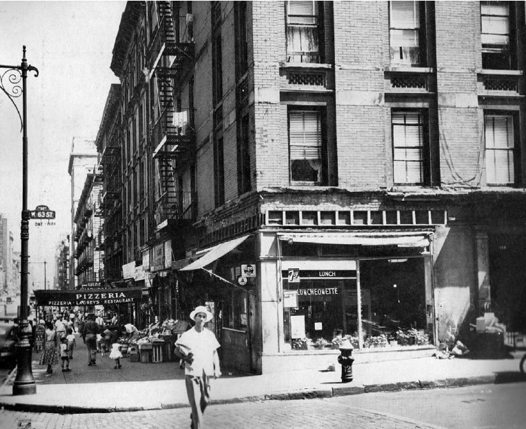 Shows a picture of buildings and people on the sidewalk